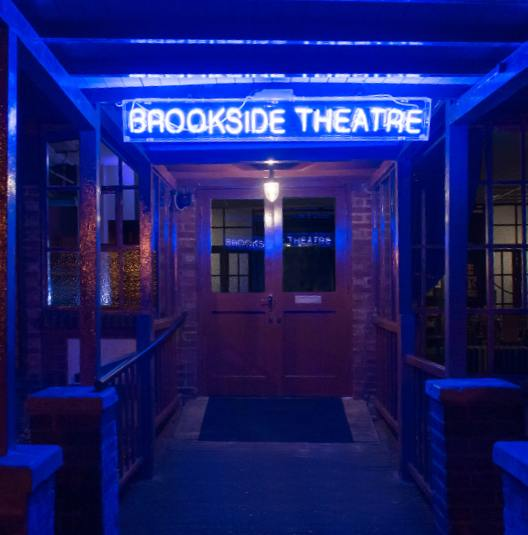 The entrance to the Brookside Theatre with illuminated neon sign